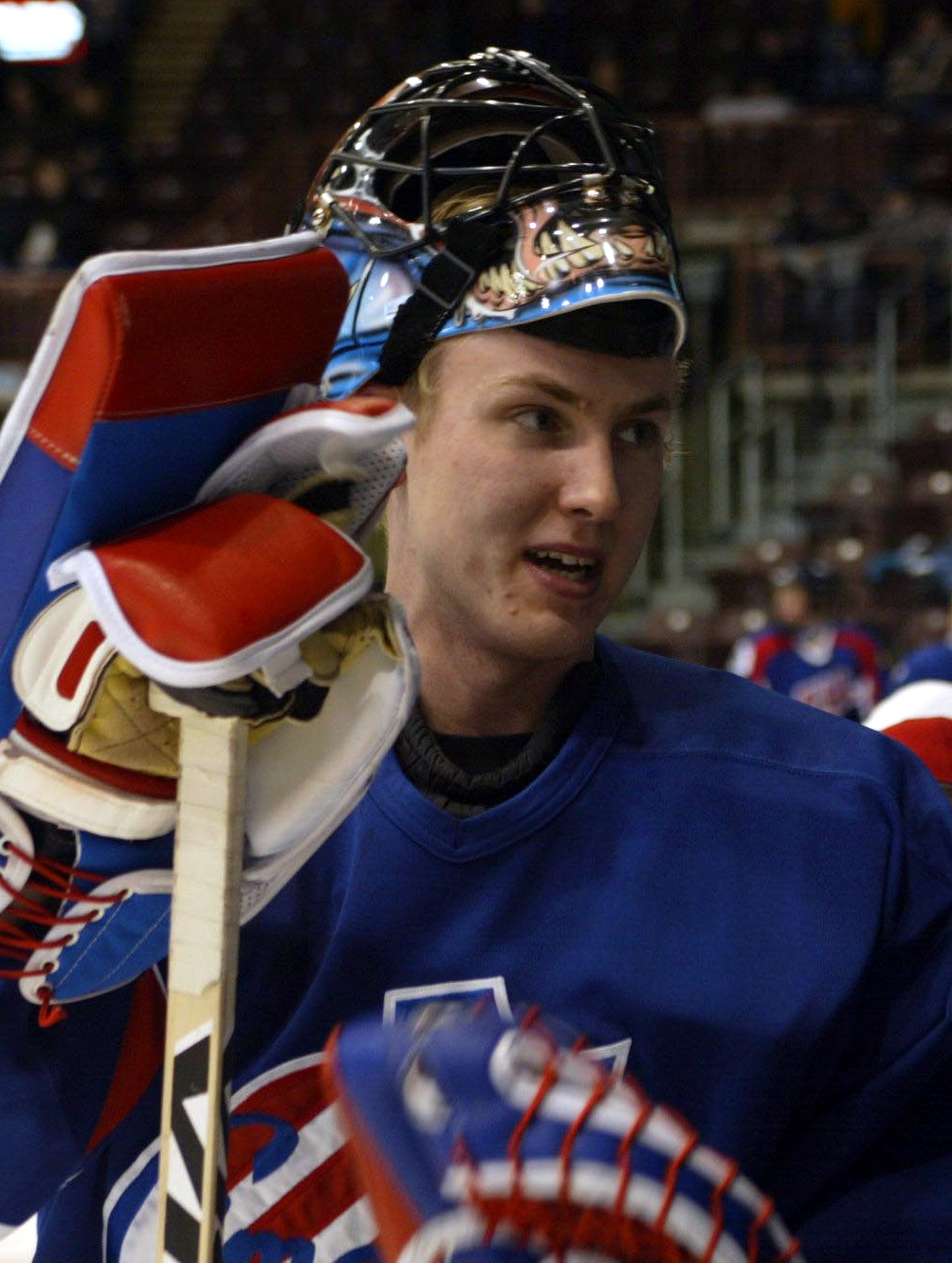 Photo: James Baker/AHL